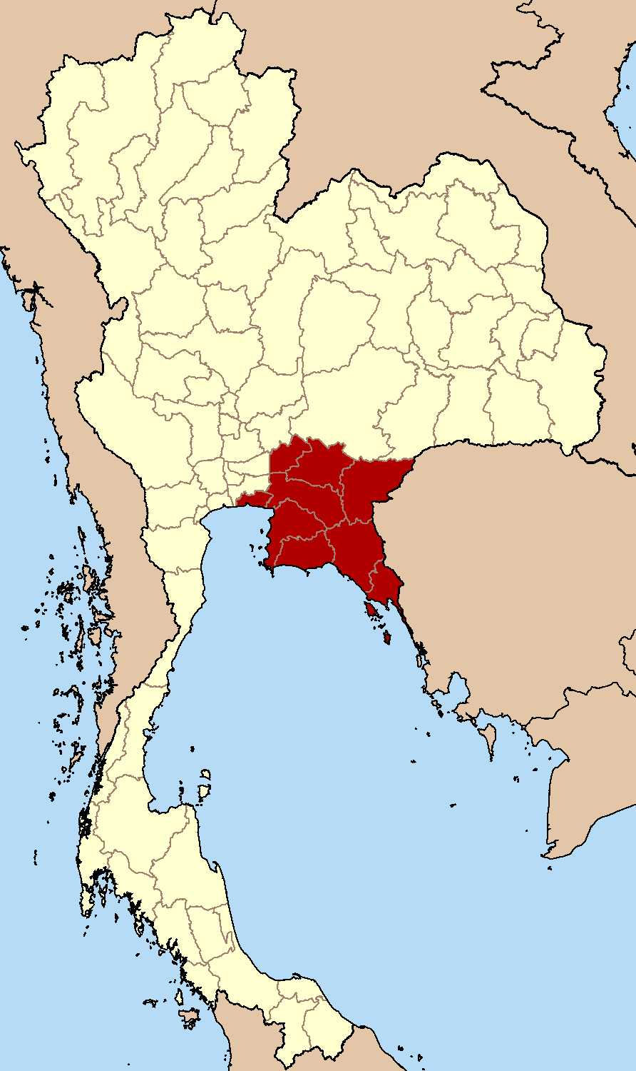 Map of Thailand highlighting the provinces of Eastern Thailand, based on the system of Office of the National Economics and Social Development Board. There are 9 provinces.